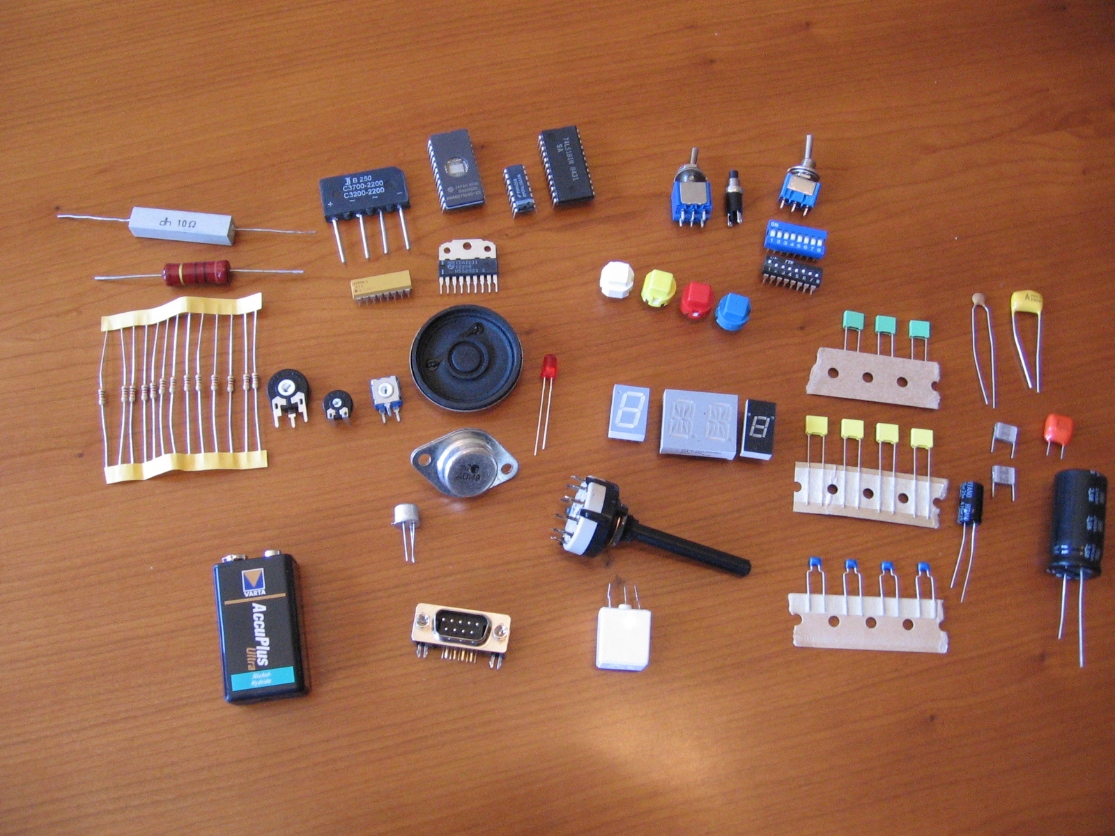 Various electronic components